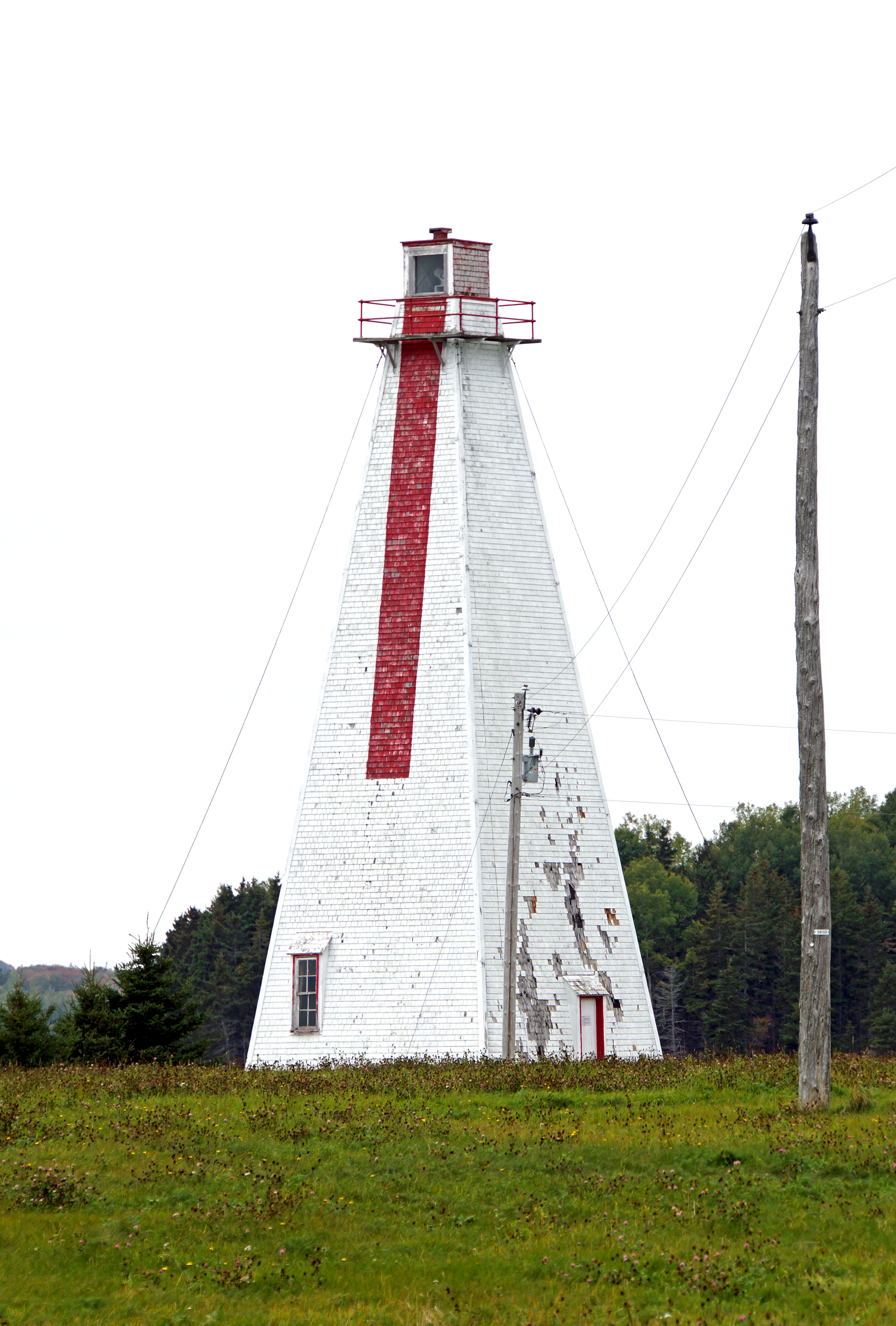 PLEASE, NO invitations or self promotions, THEY WILL BE DELETED. My photos are FREE to use, just give me credit and it would be nice if you let me know, thanks. The tower is 20 m (65.5 ft) tall and was built in 1901. It is the highest range light on PEI.. Light: equal interval white flash